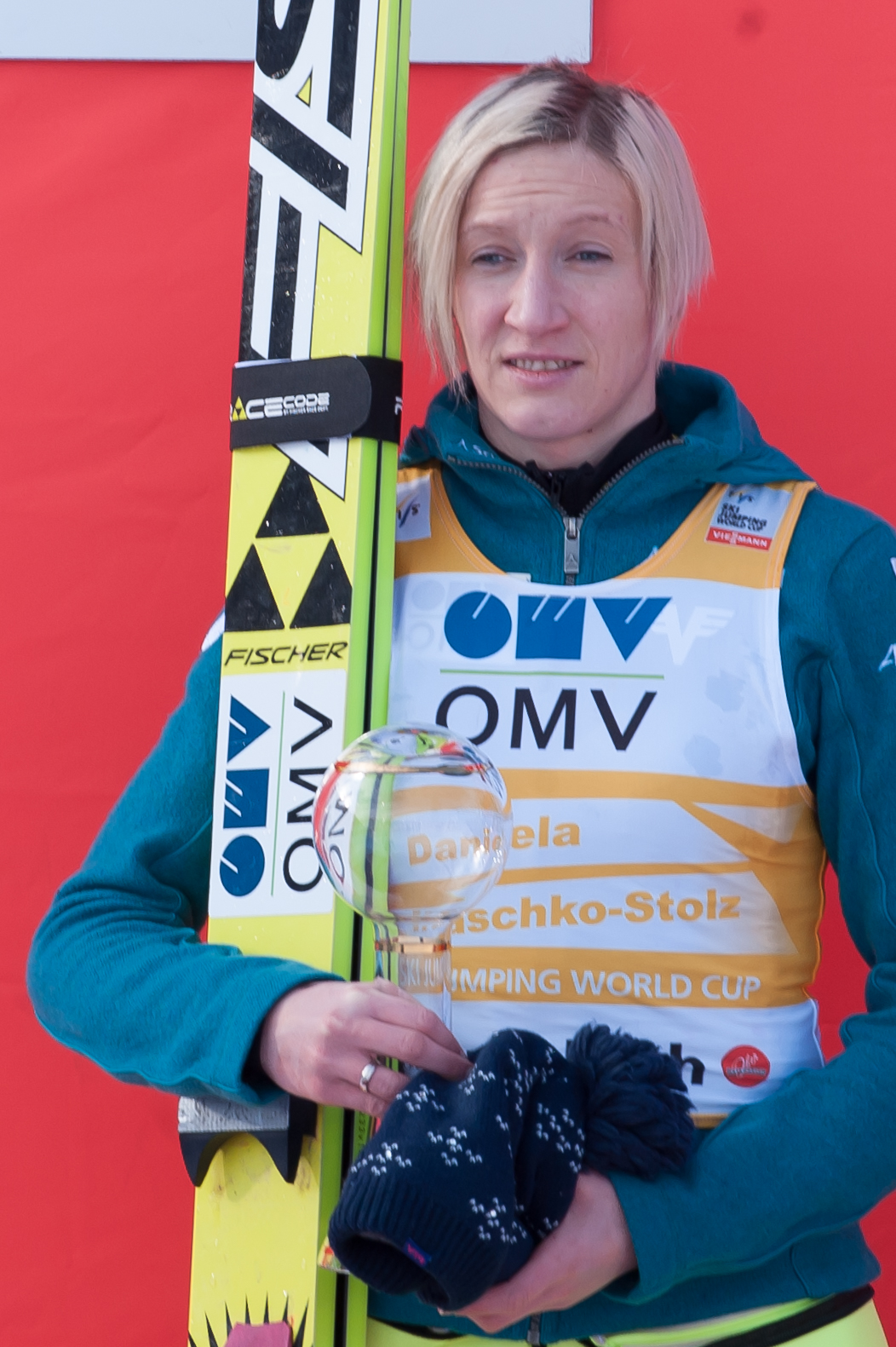 FIS Ski Jumping World Cup Hinzenbach Sun 1 Feb 2015